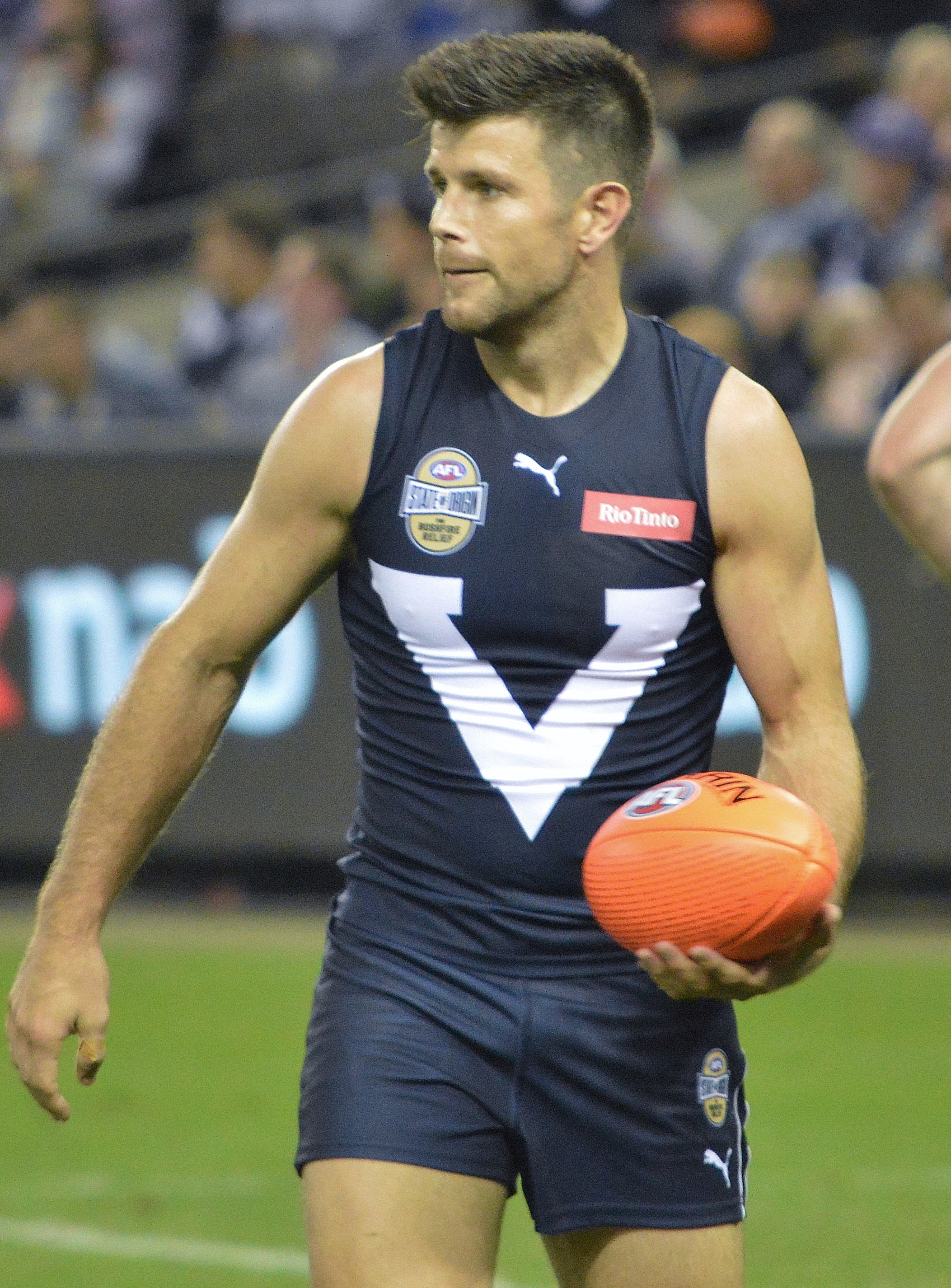 Trent Cotchin at the AFL State of Origin for Bushfire Relief Match at Marvel Stadium in February 2020.